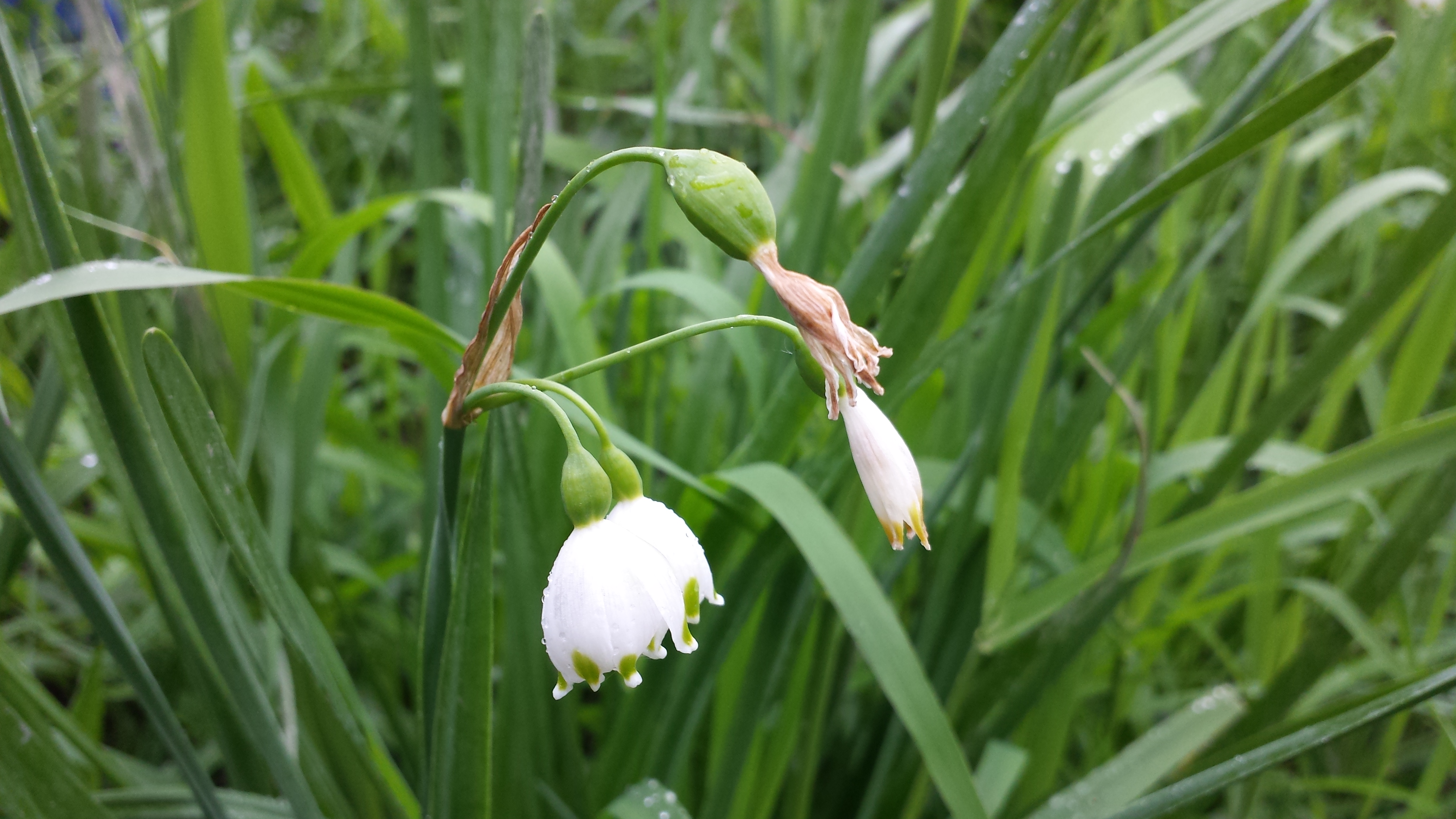 Flowers Taxon: Leucojum aestivum (sensu Fischer et al. EfÖLS 2008 ISBN 978-3-85474-187-9; det. M. A. Fischer 2013-05-11) Location: March floodplains near Hohenau an der March, district Gänserndorf, Lower Austria - ca. 150 m a.s.l. Habitat: riparian forest